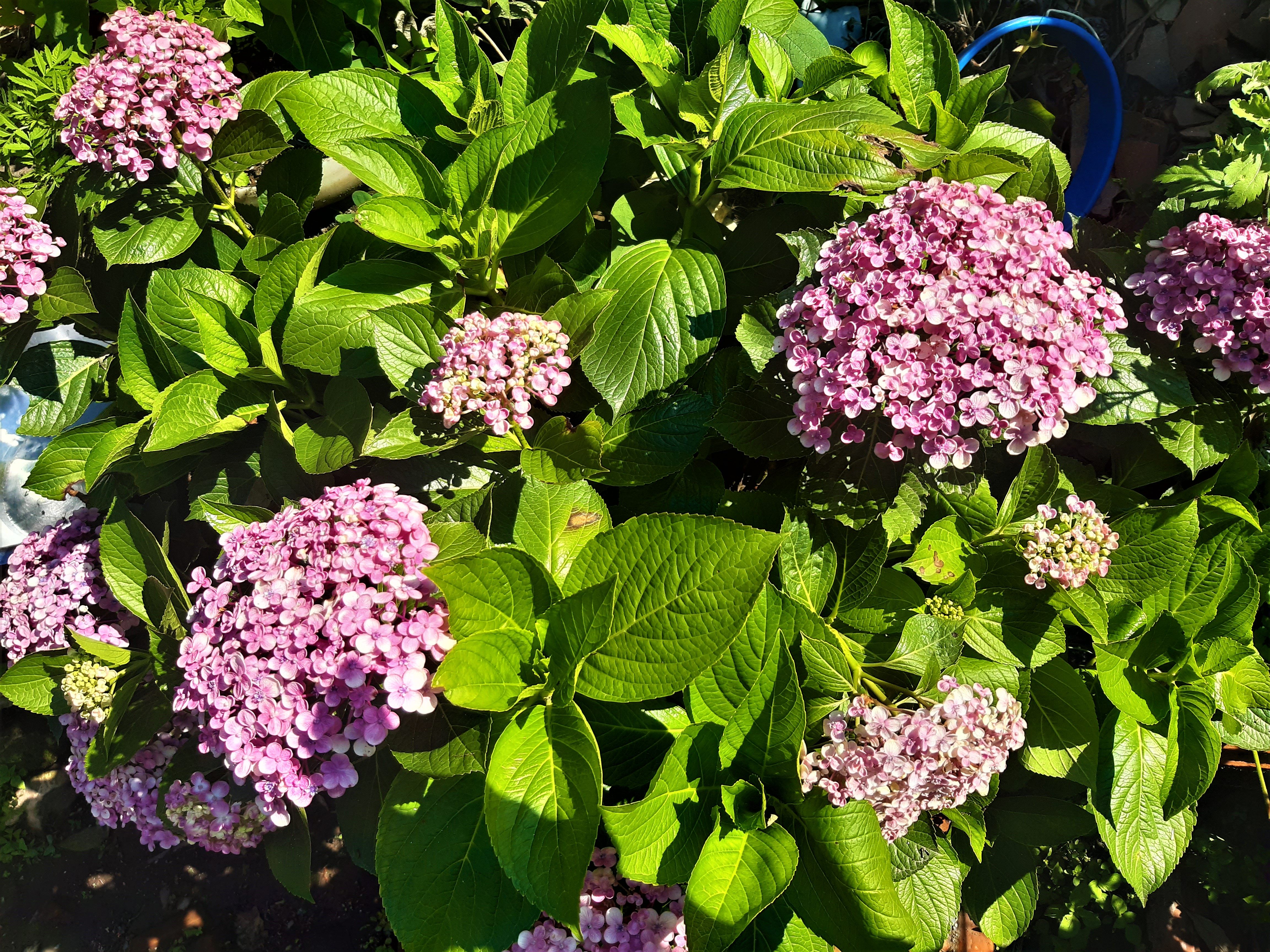 Hydrangea serrata